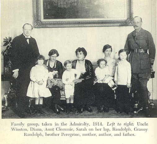 Churchill family at the Admiralty in 1914